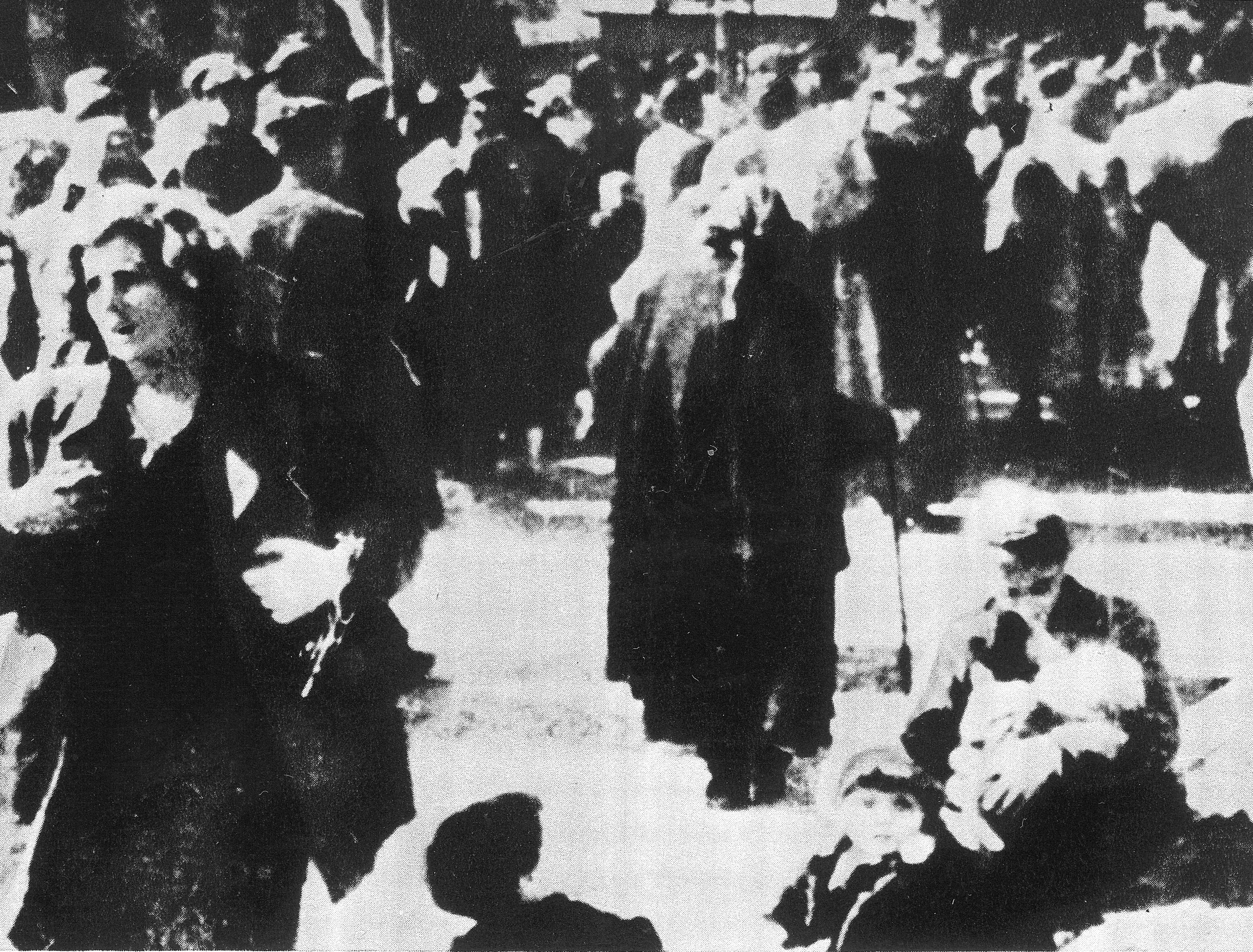 Inhabitants of Wola district driven out from their houses during Warsaw Uprising in August 1944. Photo taken by German photographer Alfred Mensebach at Wolska street. Some sources describe the image as polish civilians awaiting "selection" in the German transit camp (Dulag 121) in Pruszków.